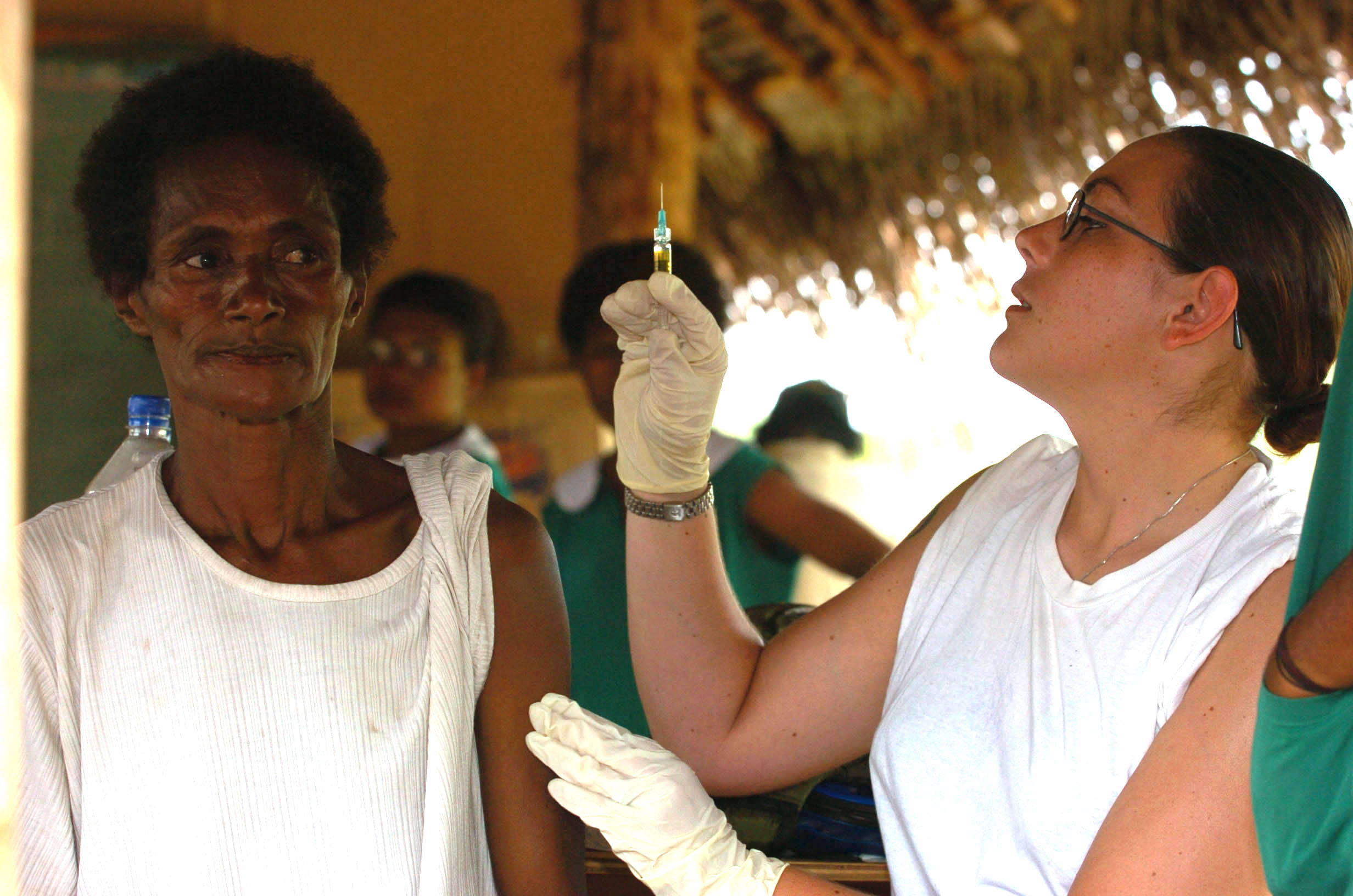 Potts Dam, Papua New Guinea (May 18, 2005) – Hospitalman Jessica Mayer of Mariss, Ill., preps a syringe filled with measles, mumps and rubella vaccination before injecting a local woman the local village of Potts Dam. The Military Sealift Command (MSC) hospital ship USNS Mercy (T-AH 19) and the MSC combat stores ship USNS Niagara Falls (T-AFS 3) are currently station off the coast of Papua New Guinea to provide humanitarian assistance and focused medical care to the residents affected by a volcano eruption in the area. Navy photo by Photographer's Mate 3rd Class Lamel J. Hinton (RELEASED)